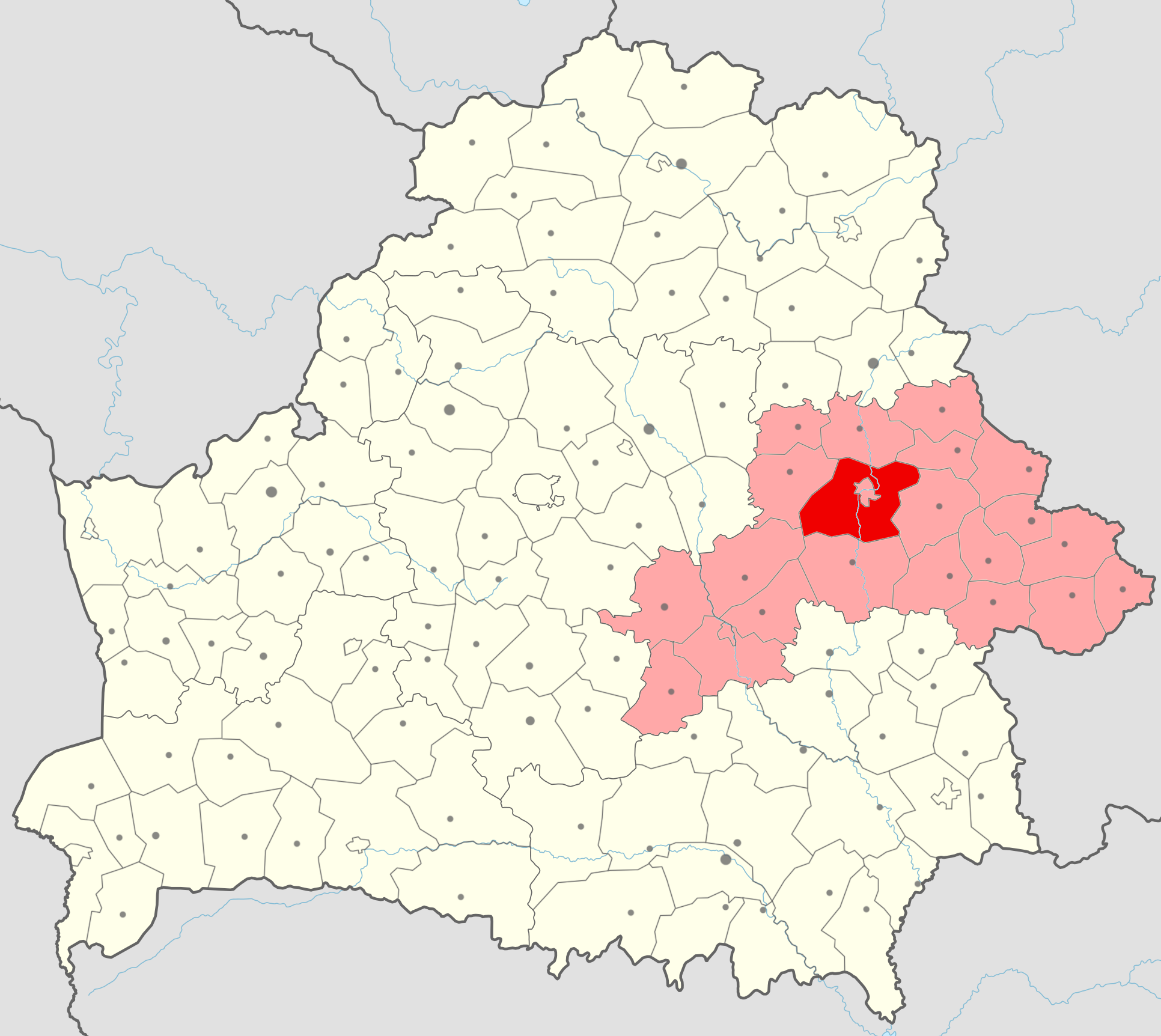 Location of Mahilioŭski rajon (red) in Mahilioŭskaja voblasć (light red) in Belarus.